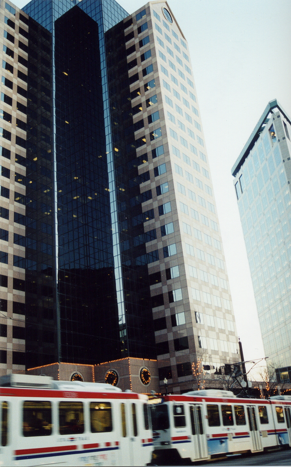 UTA Trax in front of Utah One Center.